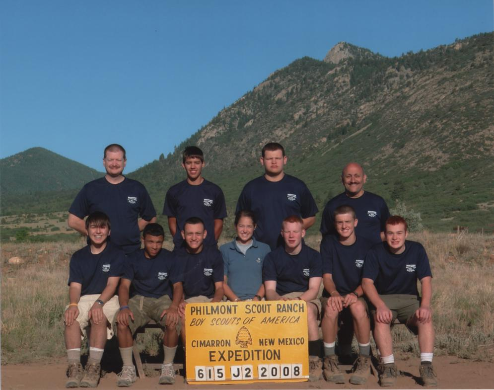 The picture that was taken before we left on the trek